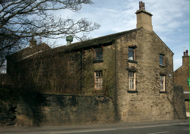 Former Bethel Chapel Sunday School Now a firm of Contract Carpet fitters